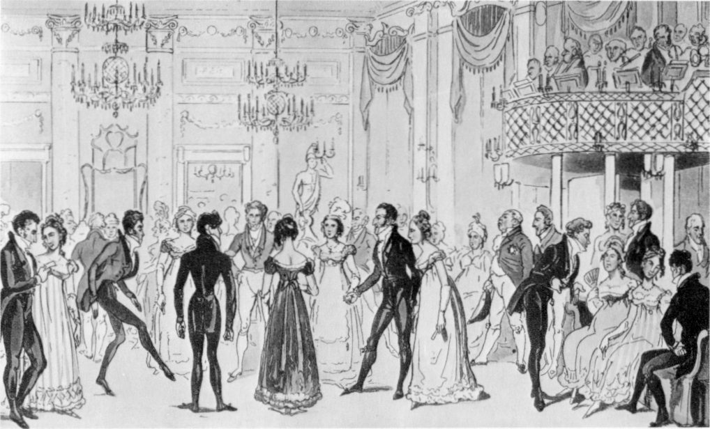 A Ball at Almack's Assembly Rooms in London.